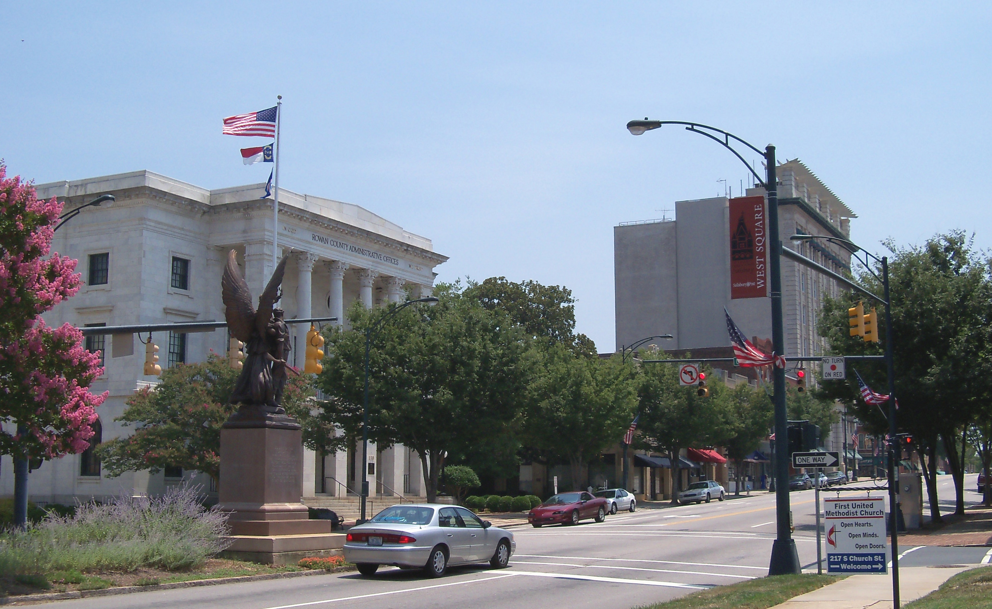 Street in downtown Salisbury, North Carolina, USA. The Confederate monument Gloria Victis is visible.